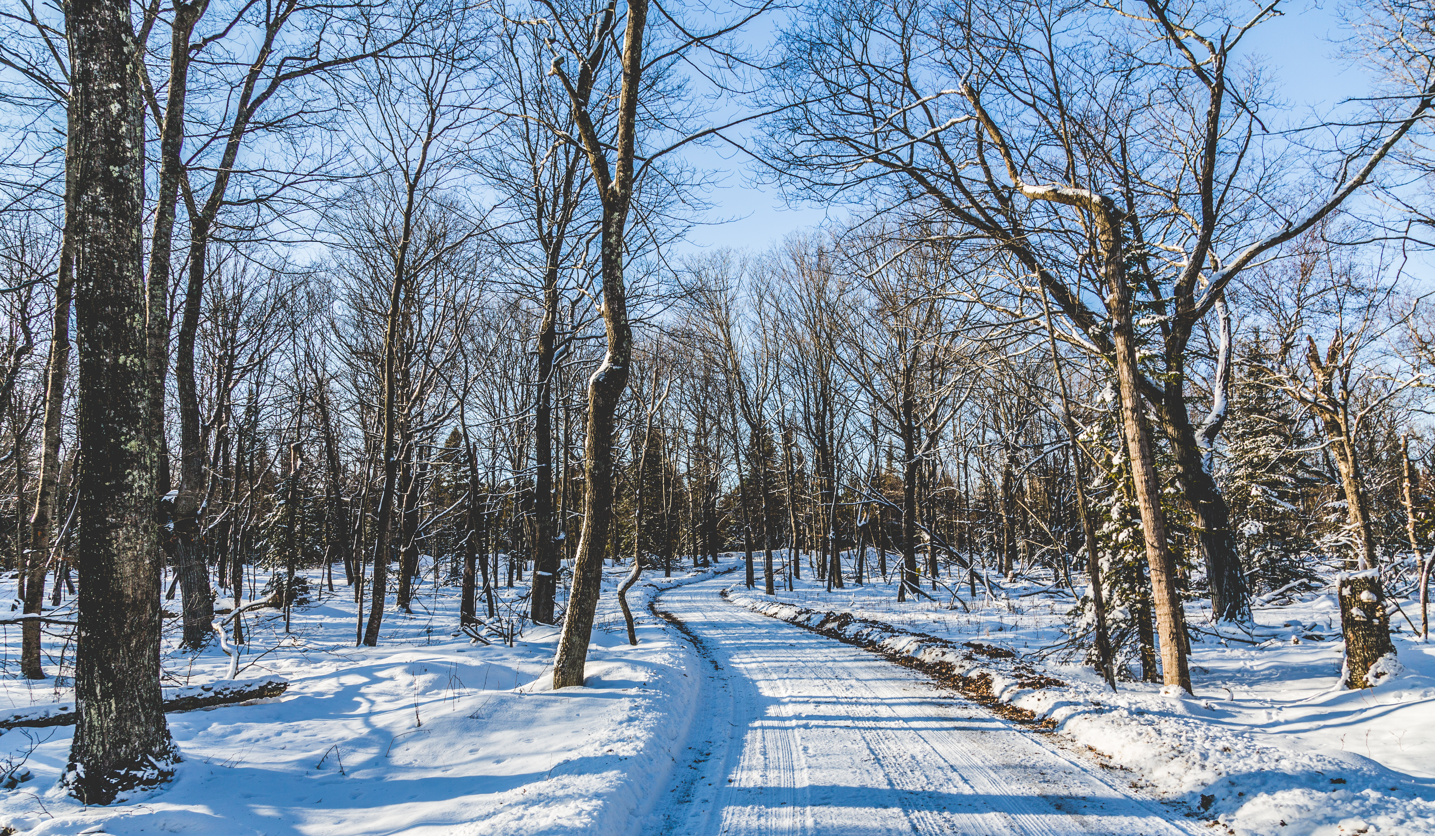 A snowy road at Shivering Sands State Recreation Area in Door County, Wisconsin.